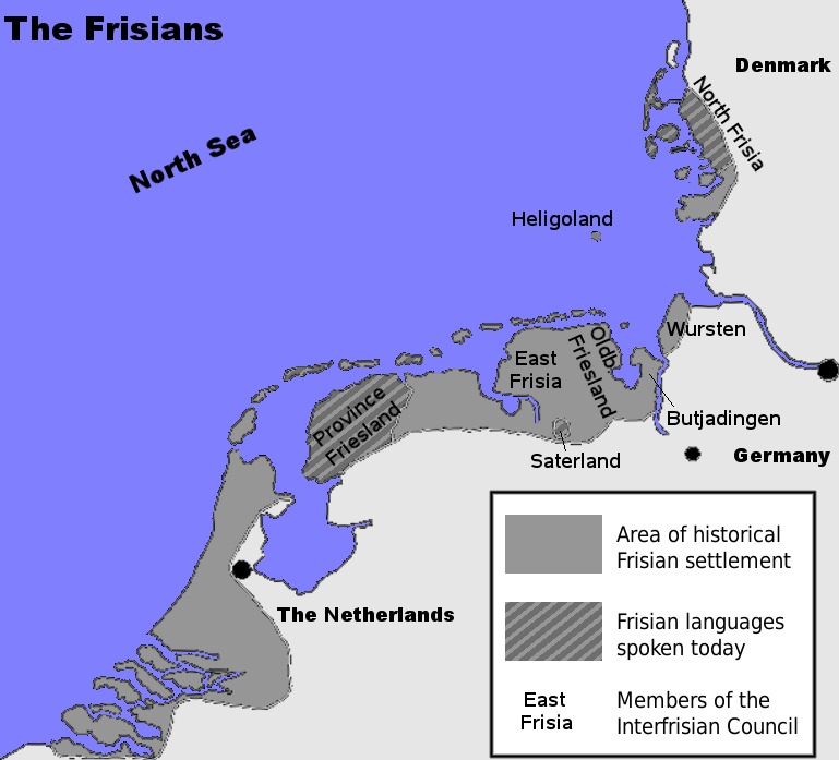 (Former) area of Frisian settlement, areas with Frisian languages spoken today, areas represented in today's Interfrisian Council.